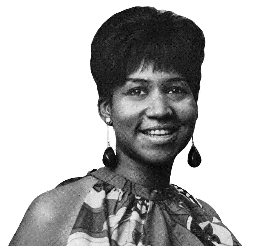 Trade ad for Aretha Franklin's single "Baby I Love You".To better adapt it to his respective Wikipedia article, the ad was cropped and cleaned in a graphics editing program. The original can be viewed at the source below.